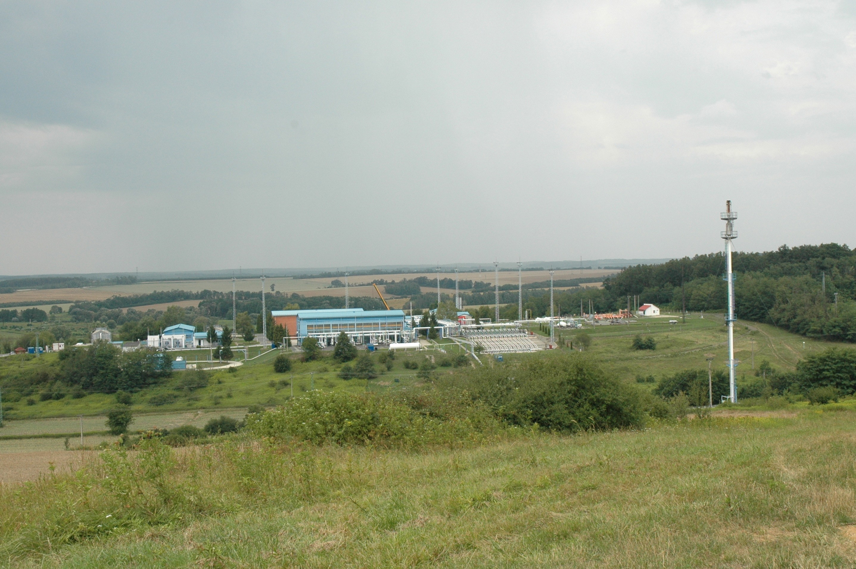 E.ON underground gas storage station in Pusztaederics (Zala County, Hungary)